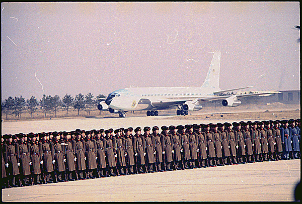 Title: Arrival of Air Force One in Peking, 02/21/1972 Production Date: February 21, 1972 Arrival of Air Force One in Peking, 02/21/1972 (ARC ID 194412); Collection NS-WHPO: White House Photo Office Collection, 01/20/1969 - 08/09/1974; Nixon Presidential Materials Staff (NLNS), National Archives and Records Administration. Persistent URL: Access Restrictions: Unrestricted Use Restrictions: Unrestricted